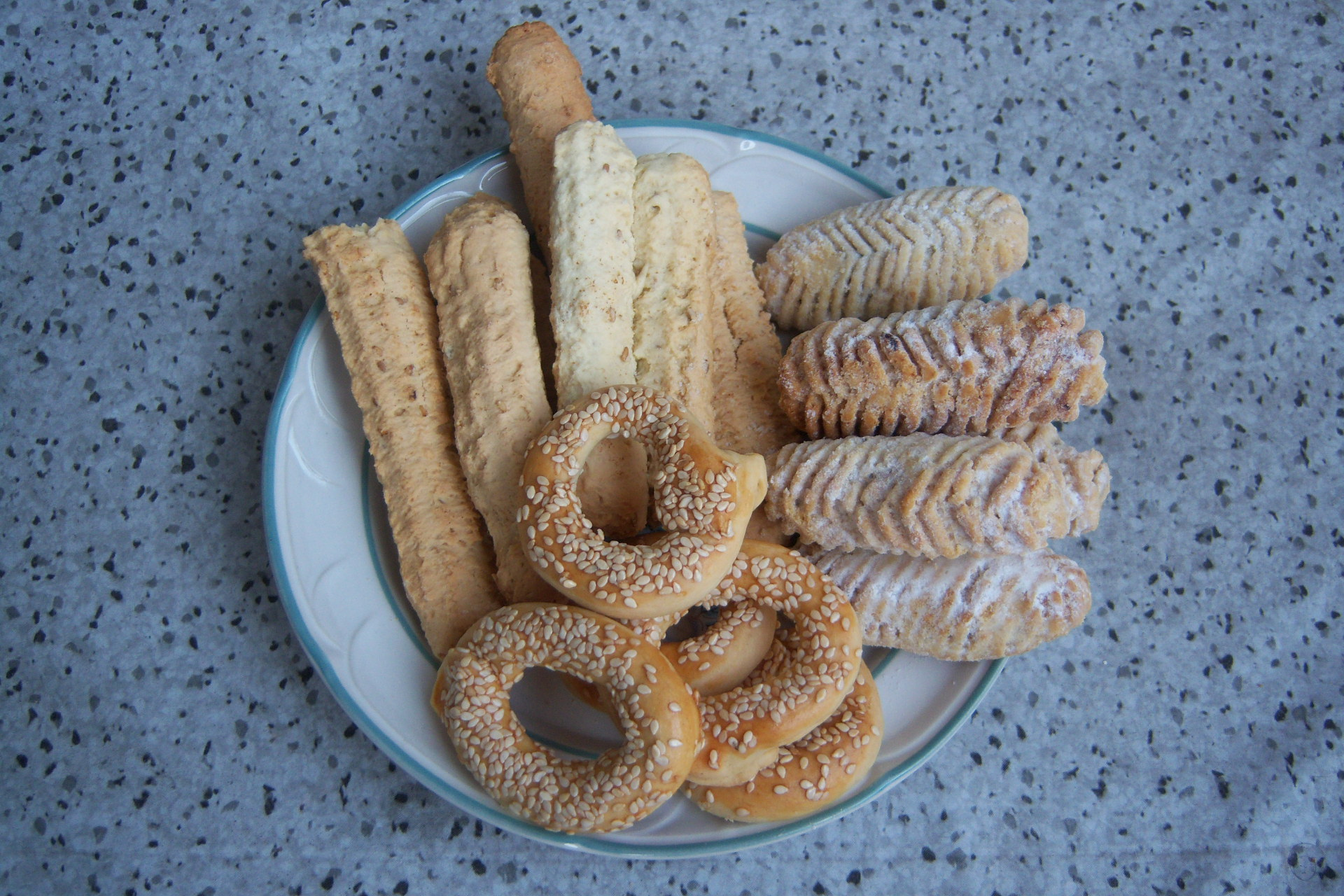 Israeli cookies